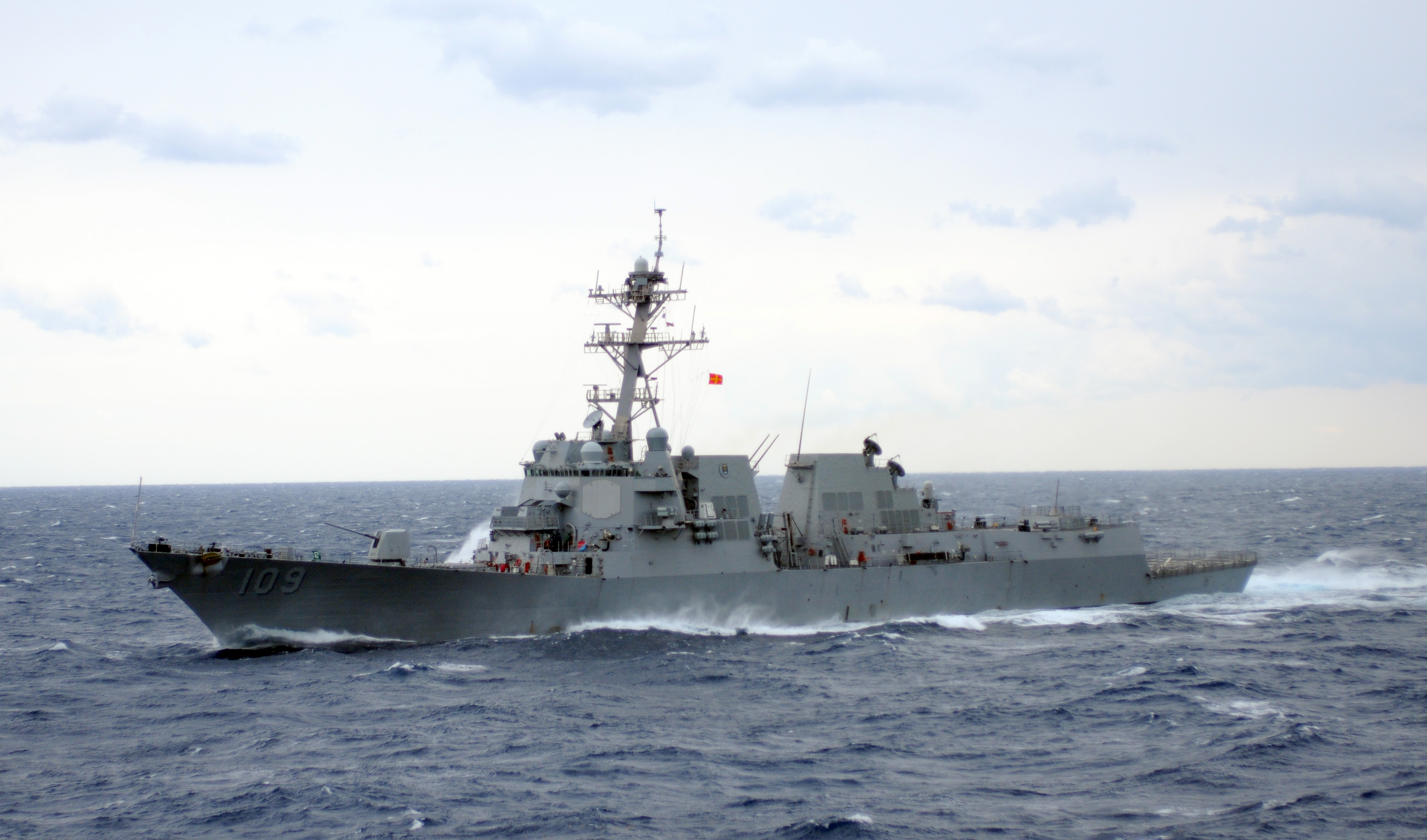 The guided-missile destroyer USS Jason Dunham (DDG 109) approaches dry cargo/ammunition ship USNS Lewis and Clark (T-AKE 1) for an underway replenishment. Jason Dunham is part of Carrier Strike Group 8, which is underway conducting a composite training unit exercise (COMPTUEX) in the Atlantic Ocean.